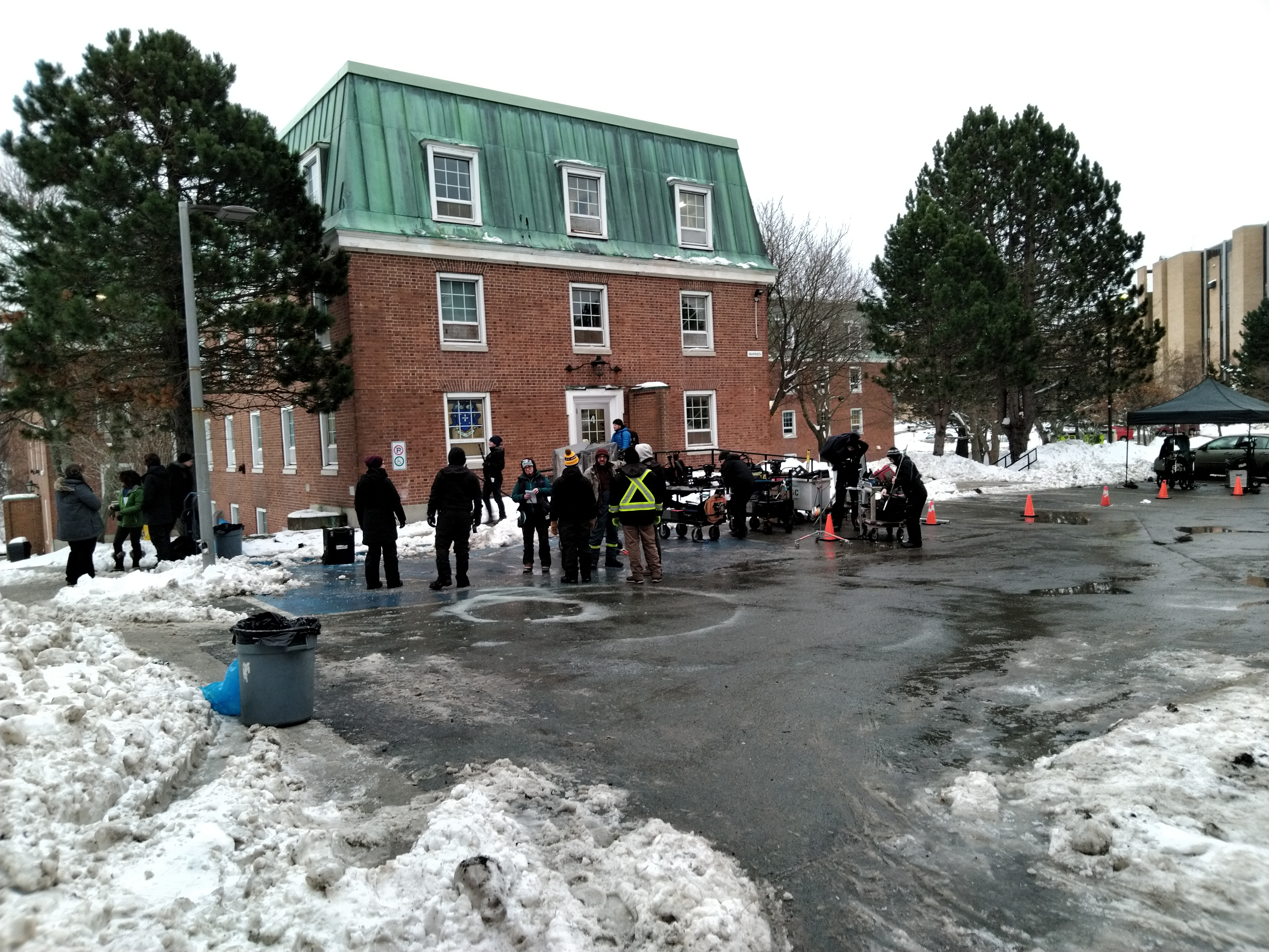 Hudson and Rex filming on site at Paton College, Memorial University of Newfoundland. Taken 2018.12.15.